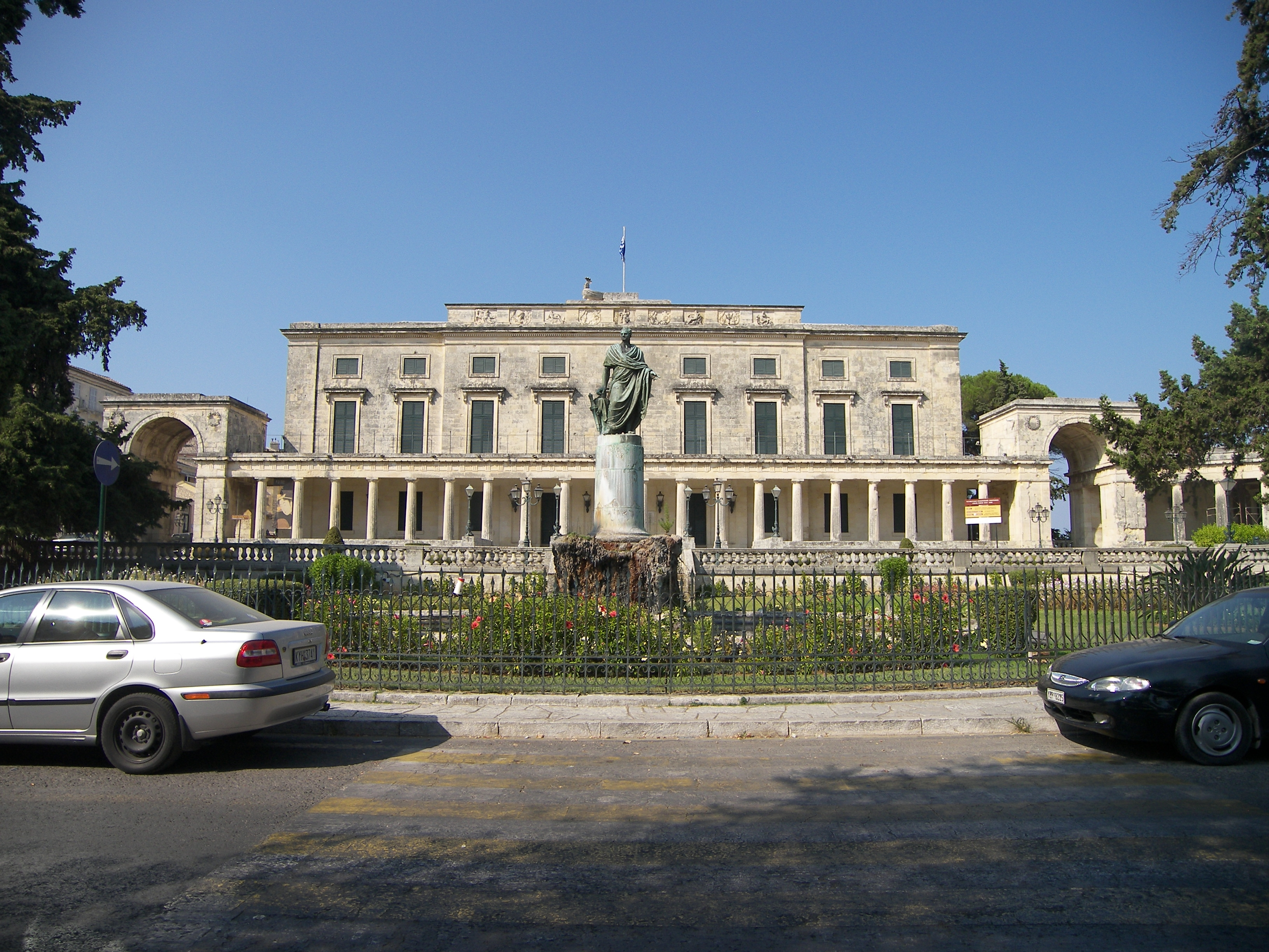 Filename